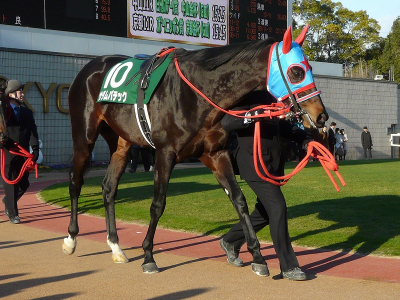 Sadamu-Patek20120105